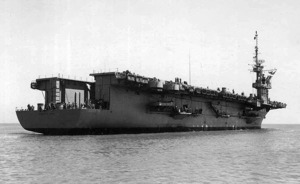 The U.S. Navy assault helicopter carrier USS Thetis Bay (CVHA-1), in 1956.